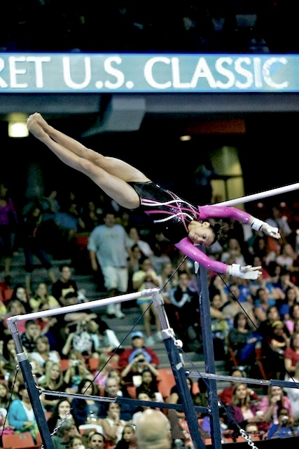 Kyla Ross